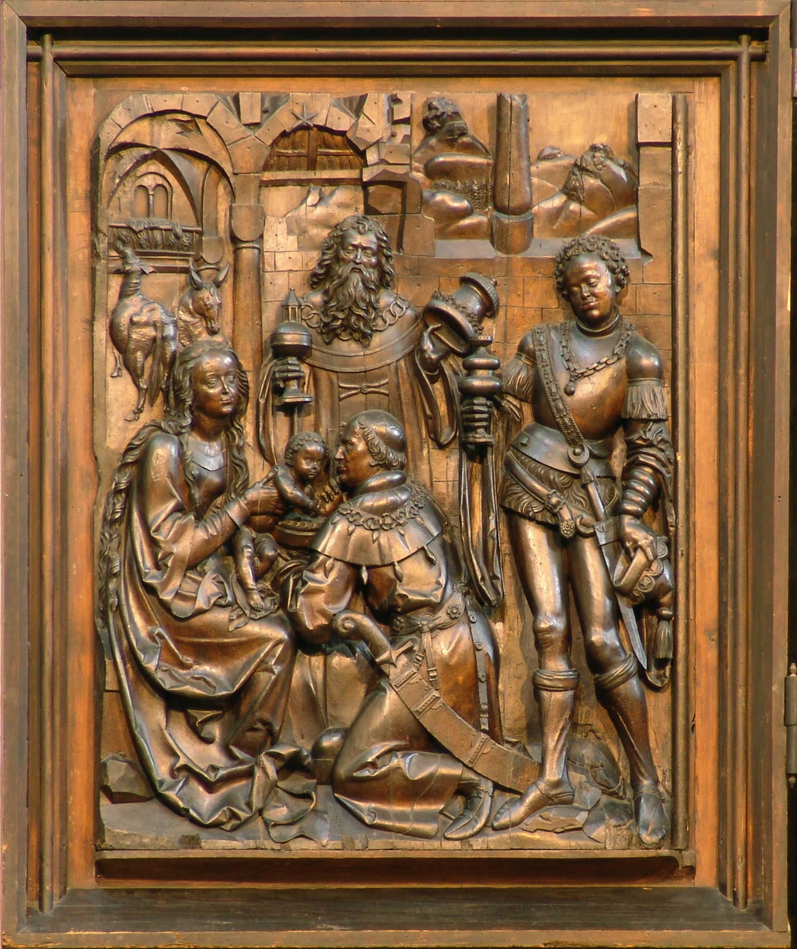 Detail from the Veit Stoss' altar in Bamberg Cathedral